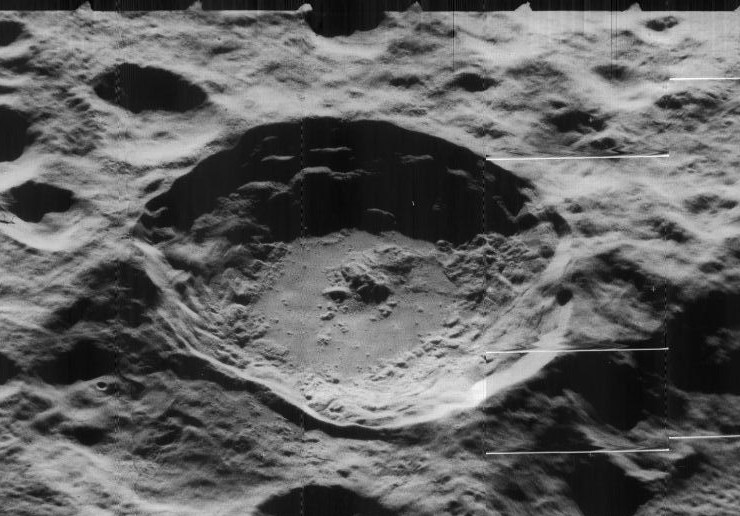 Oblique view of Ohm, on the far side of the moon, facing west. White lines are artifacts present on the original image.